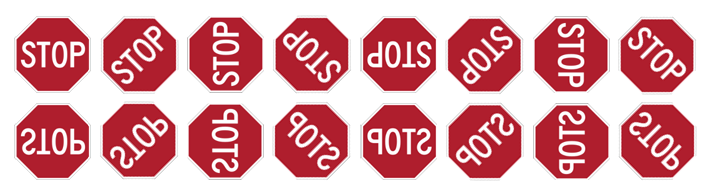 This picture shows the effect of the sixteen elements of dihedral group D8 on a stop sign: The first row shows the effect of the eight rotations, and the second row shows the effect of the eight reflections.